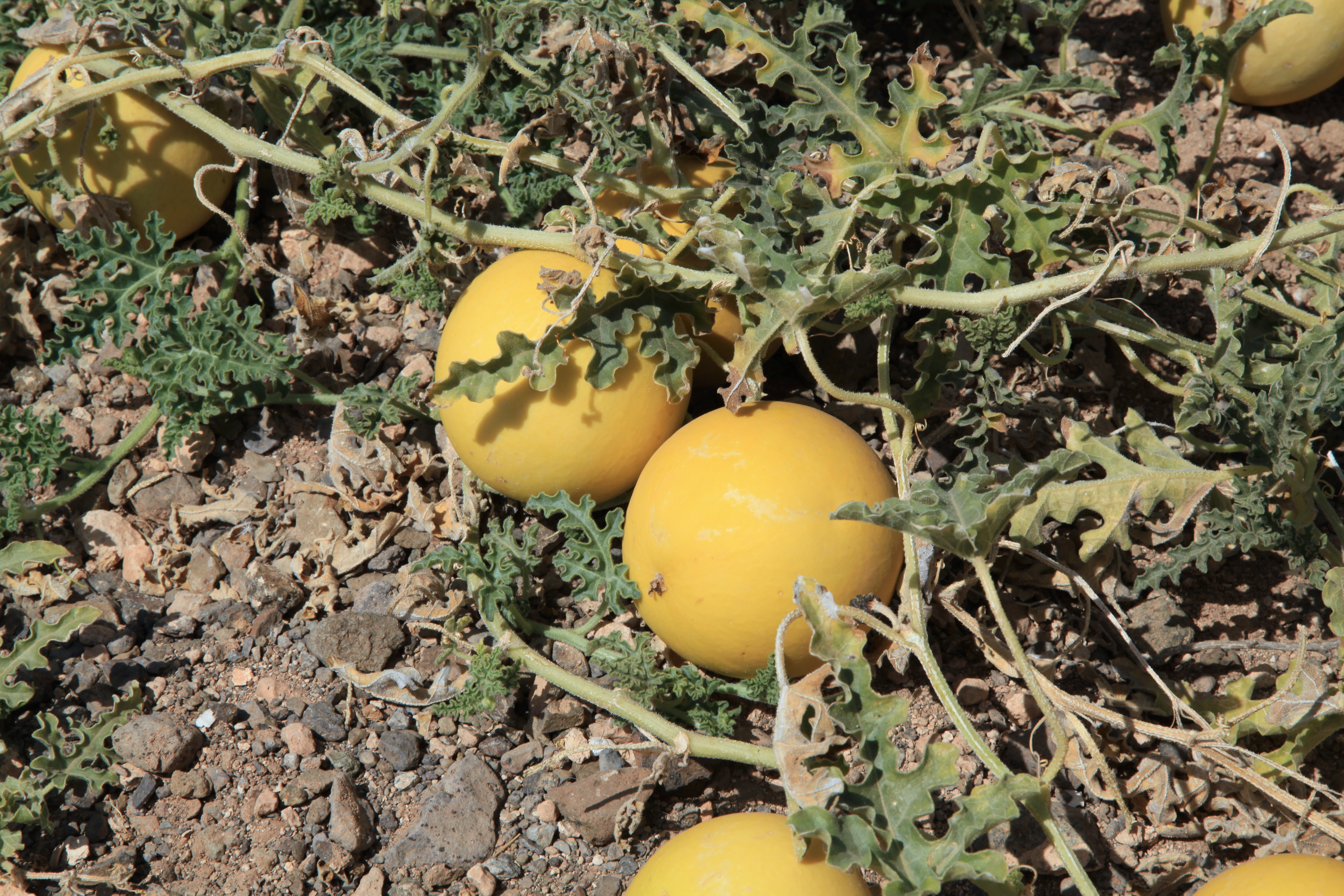 Citrullus colocynthis growing at road FV-605 in Pájara, Fuerteventura, Canary Islands